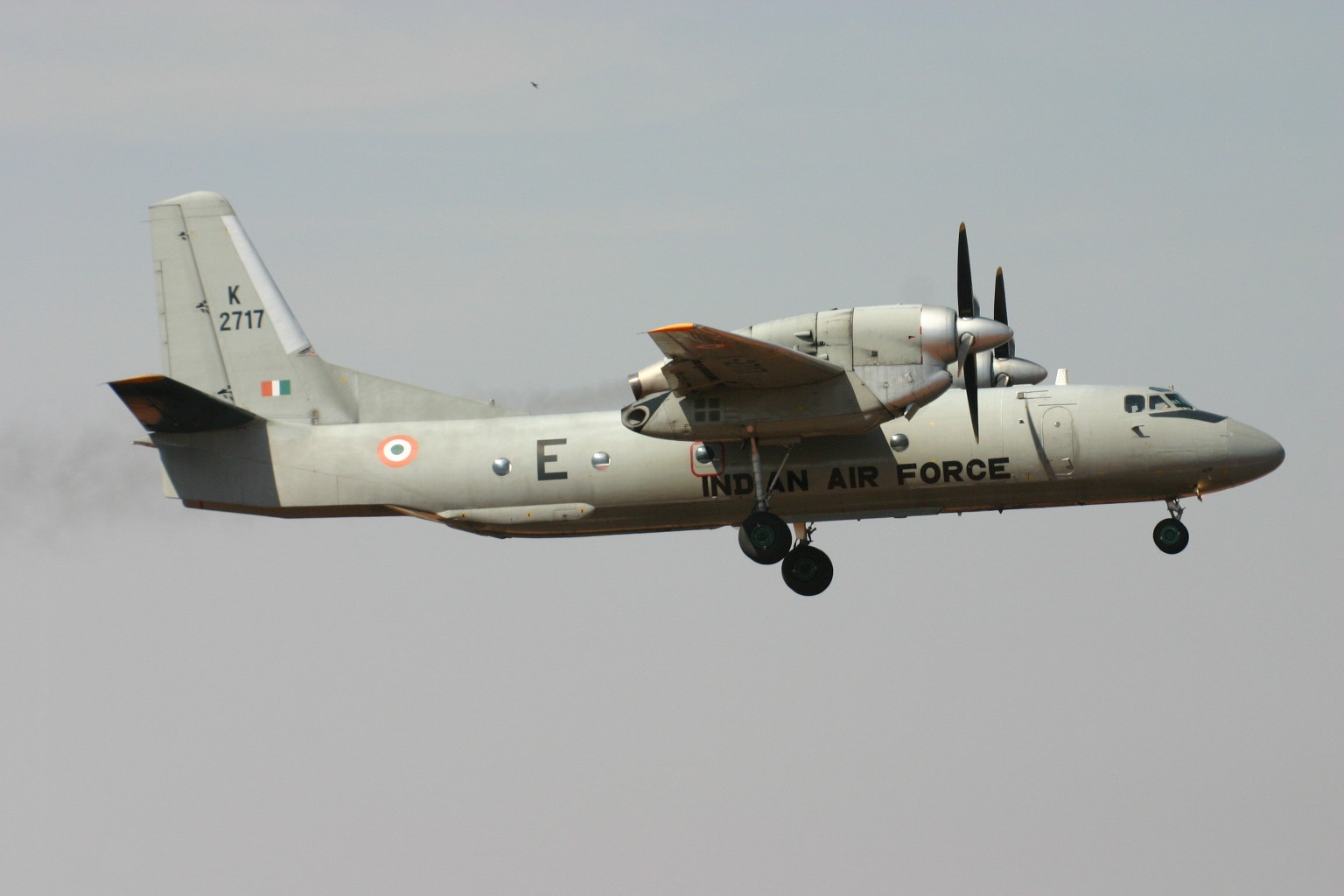 At Bangalore Yelahanka Air Force Base